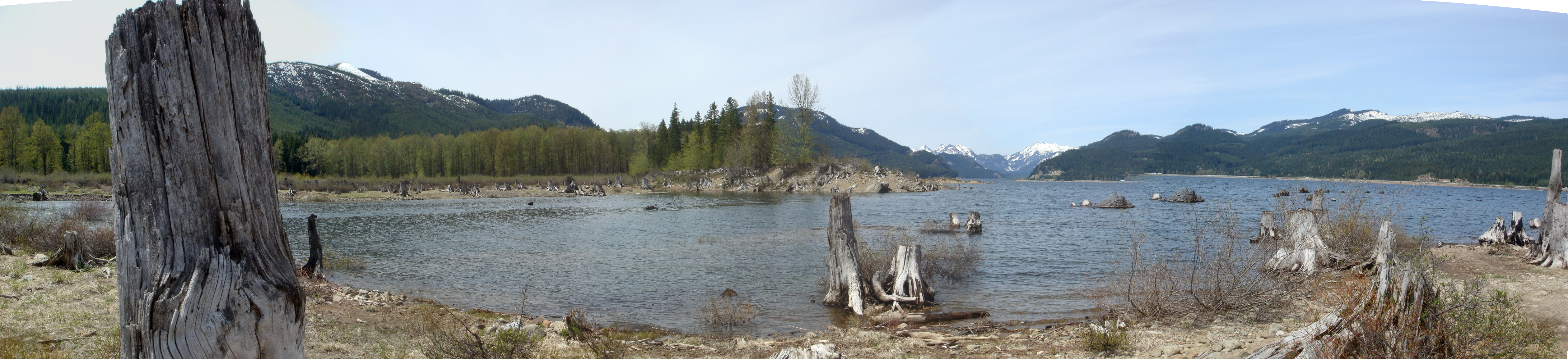 View of Keechelus Lake from the east end looking west